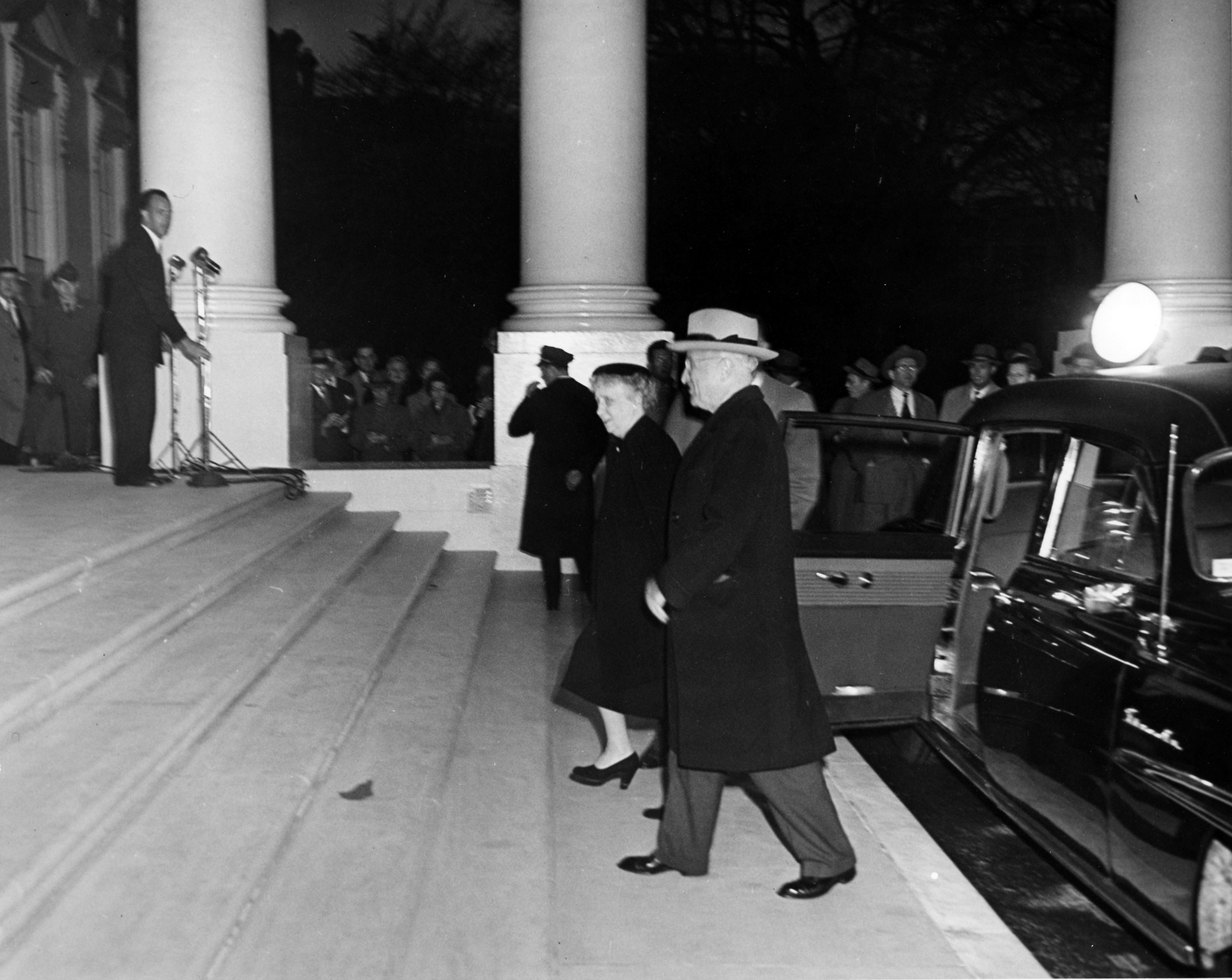 General notes: President Harry S. Truman (foreground, right) and First Lady Bess W. Truman (foreground, second from right) are arriving at the White House to reoccupy the building after the massive renovation project is completed. They arrived at 6:20 in the evening. All others present are unidentified.